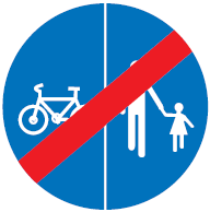 Luxembourg road sign diagram